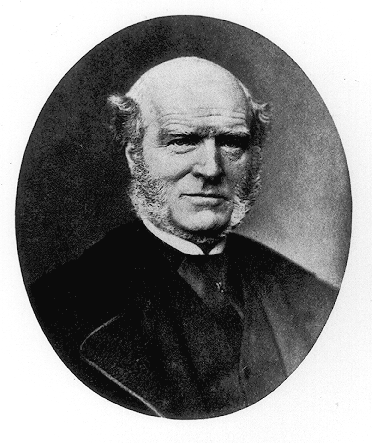 Thomas Hoyne